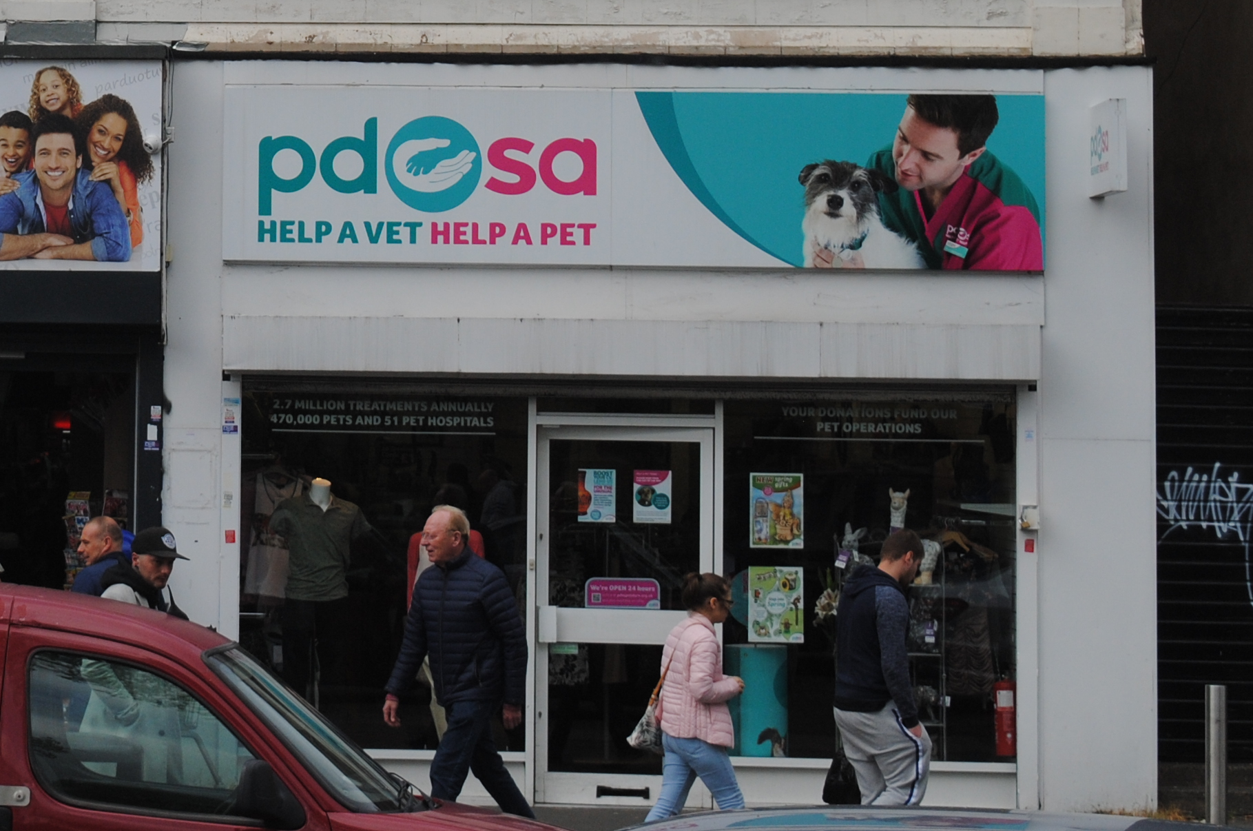 The upper floor of this building was, from 1968-1971, the venue for Mothers, a nightclub where many top bands of the era performed. Picture taken on the 50th anniversary of the concert where Pink Floyd recorded part of their live album, "Ummagumma".